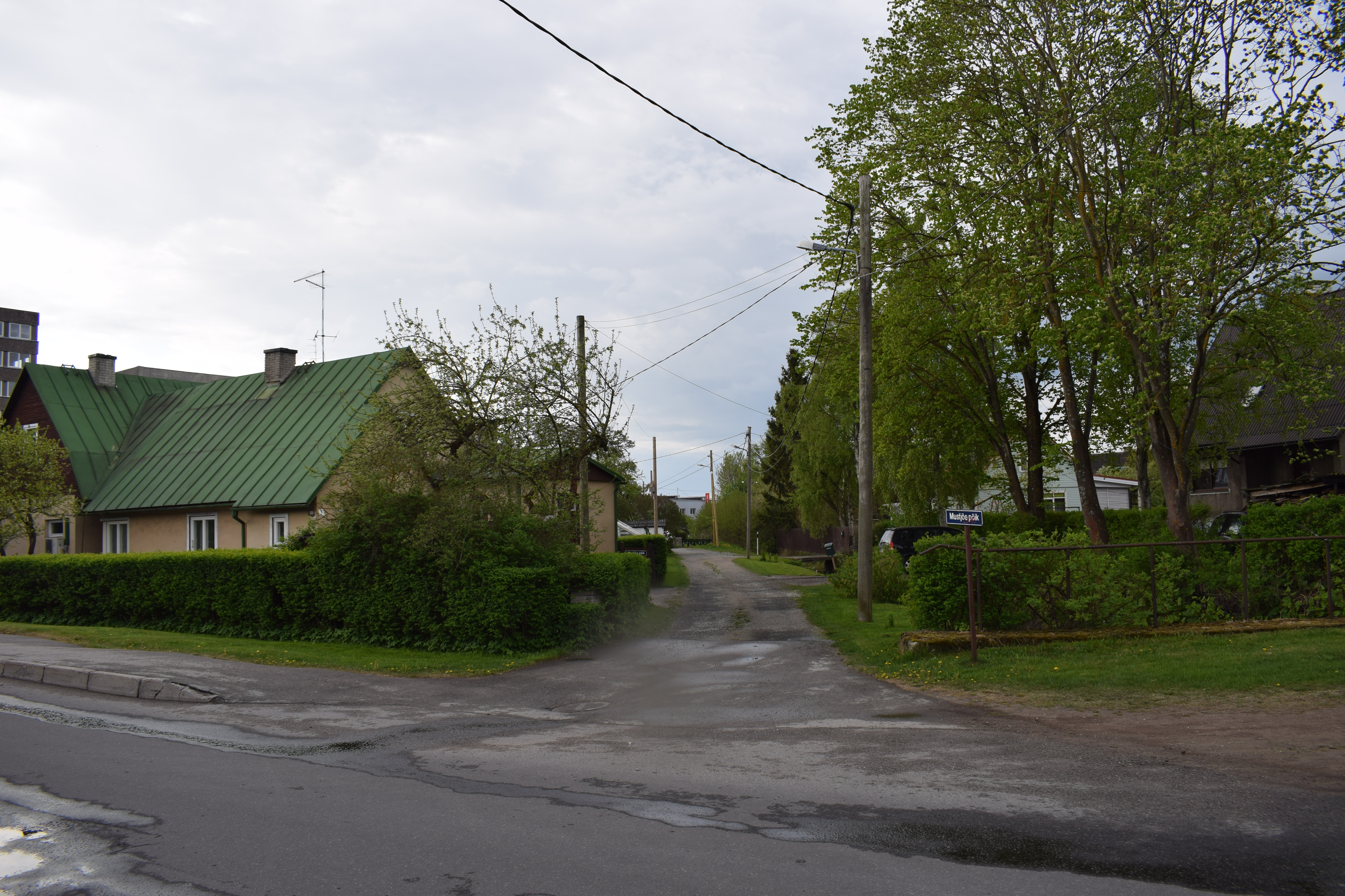 Mustjõe põik